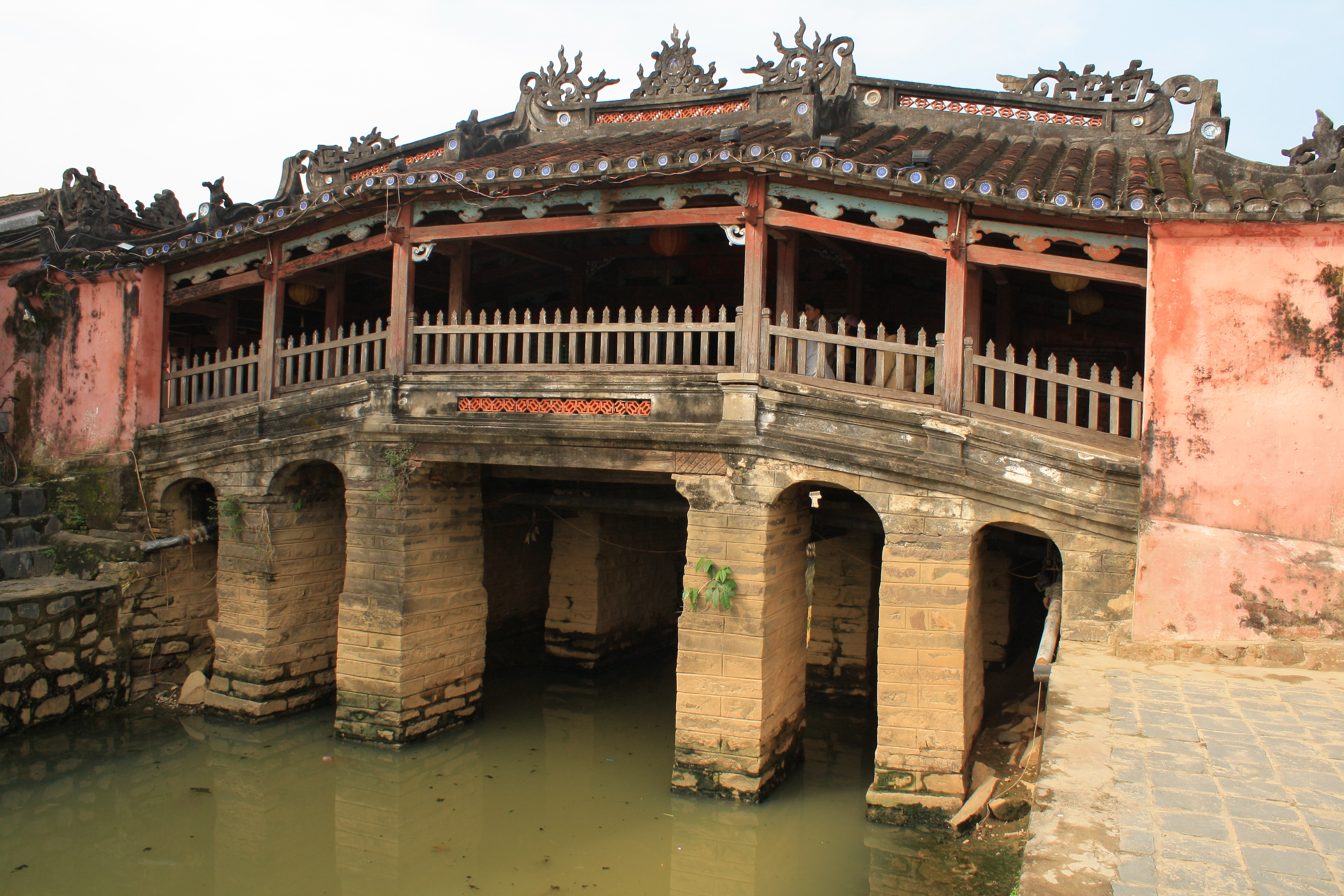 Japanese Bridge in Hoi An, Vietnam. (Chùa Cầu)